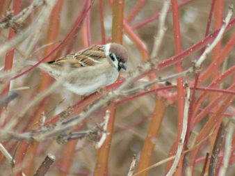 A Eurasian Tree Sparrow in Rumia, Poland